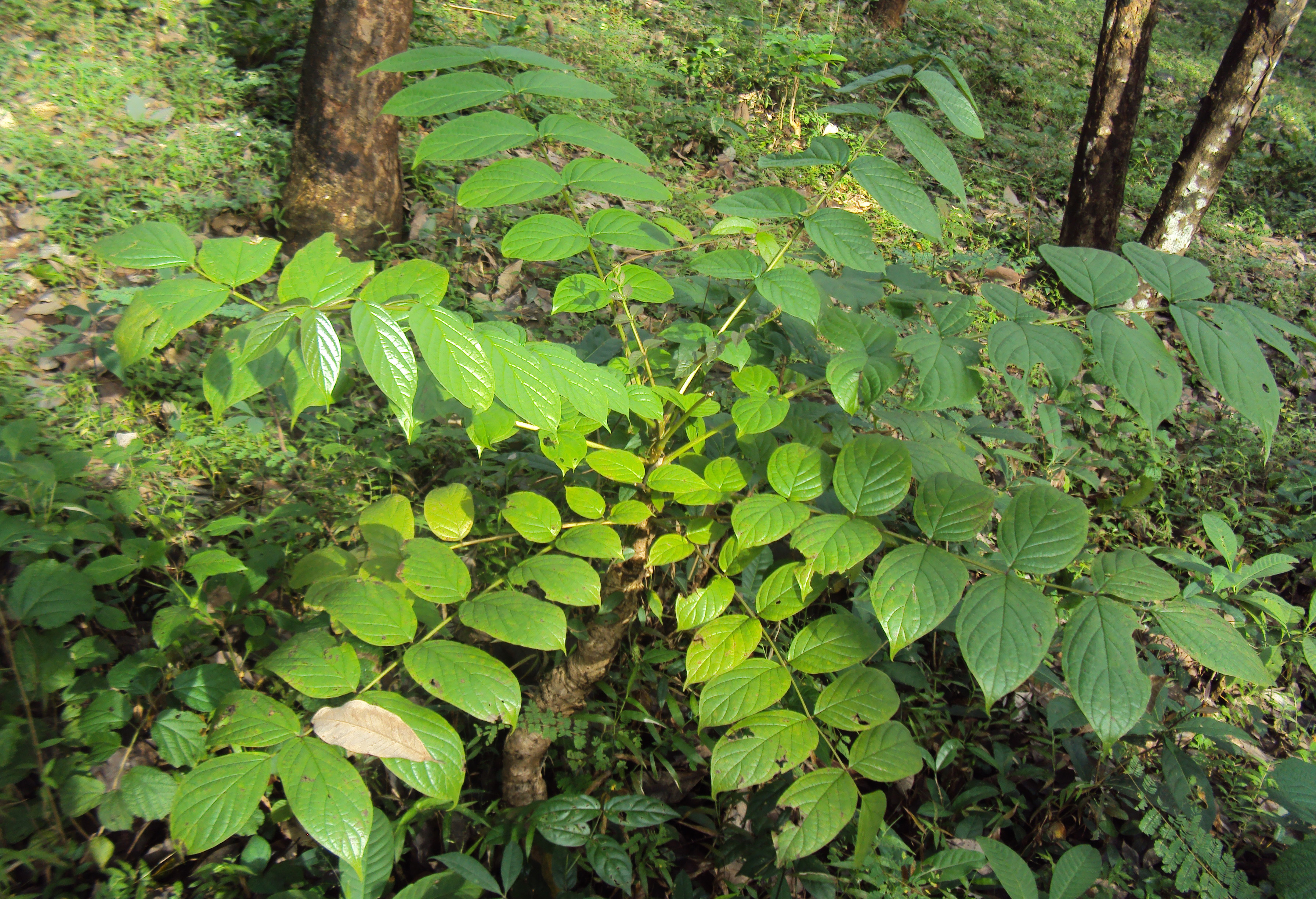 Pajanelia longifolia - ആഴാന്ത, വലിയ പലകപ്പയ്യാനി